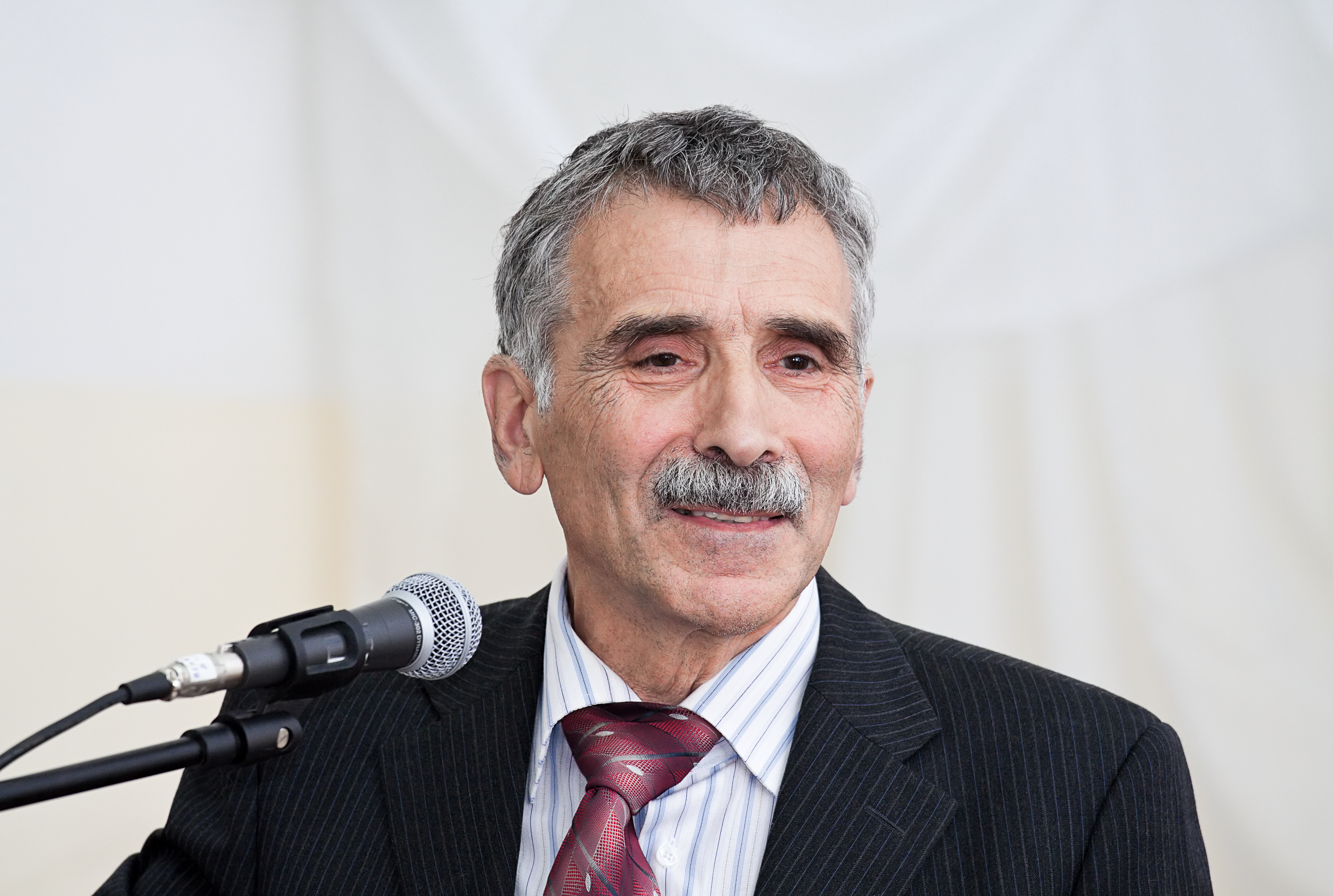 Alexander Agadjanyan — Doctor of Biological Sciences (1992), professor, head of the Mammalian laboratory of the Paleontological institute, Vice President of the Russian Theriological Society.